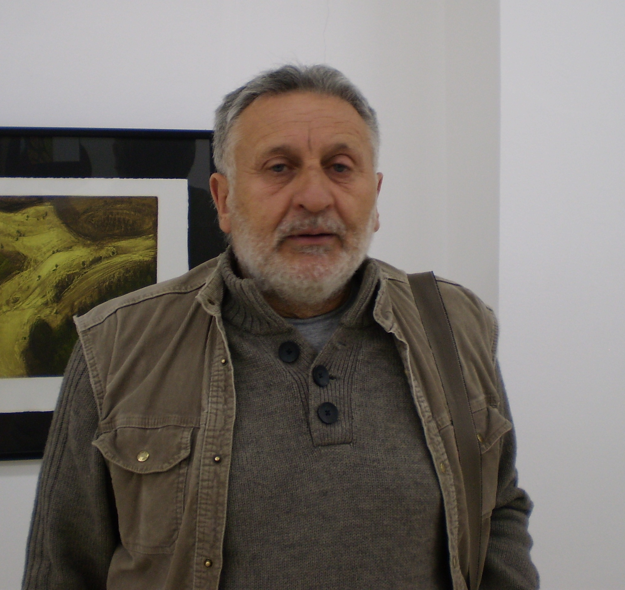 Tomislav Todorović sculptor from Belgrad, Serbia, Niš, 2016.10.13